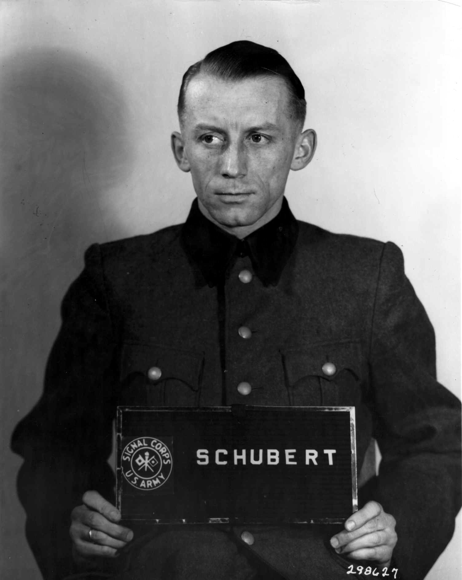 Heinz Schubert, former Obersturmführer in the SS, member of the SD, and an officer under the command of Otto Ohlendorf in Einsatzgruppe D